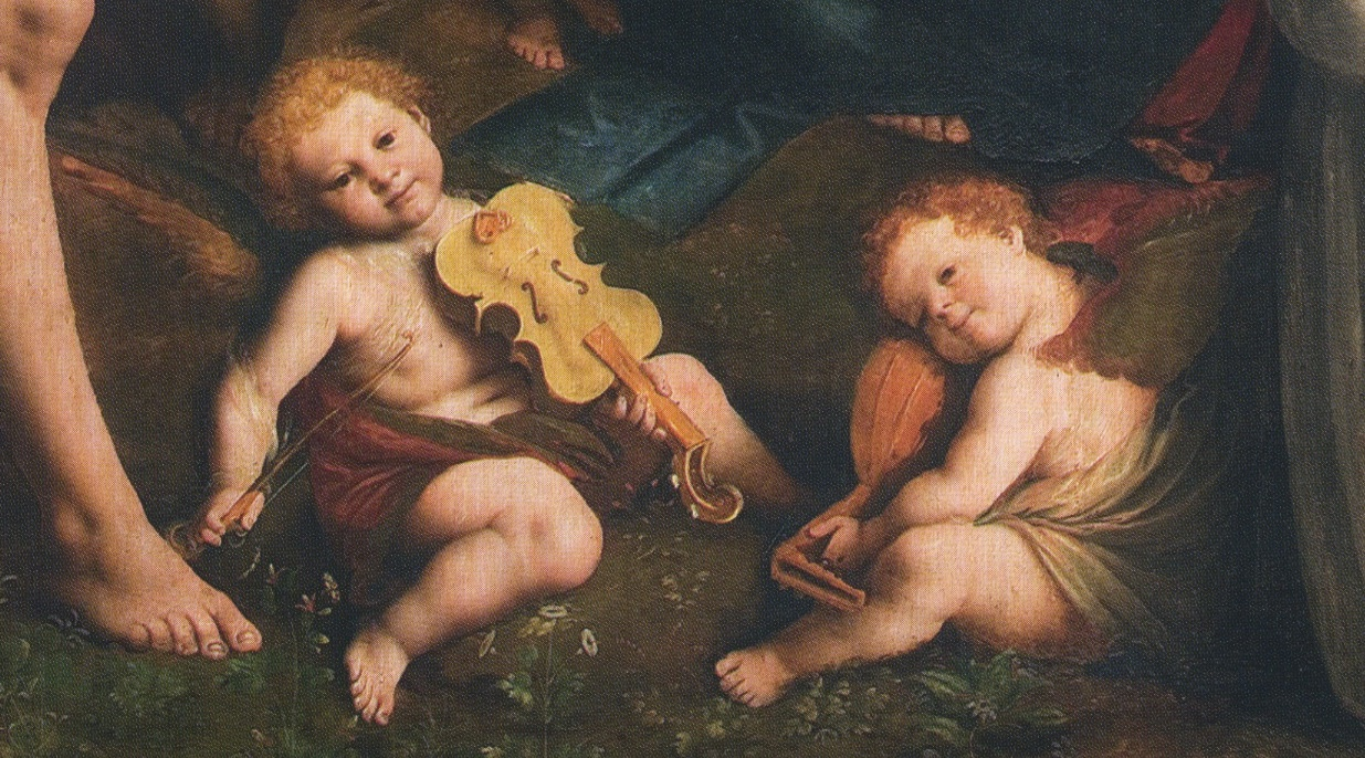 Musician angels